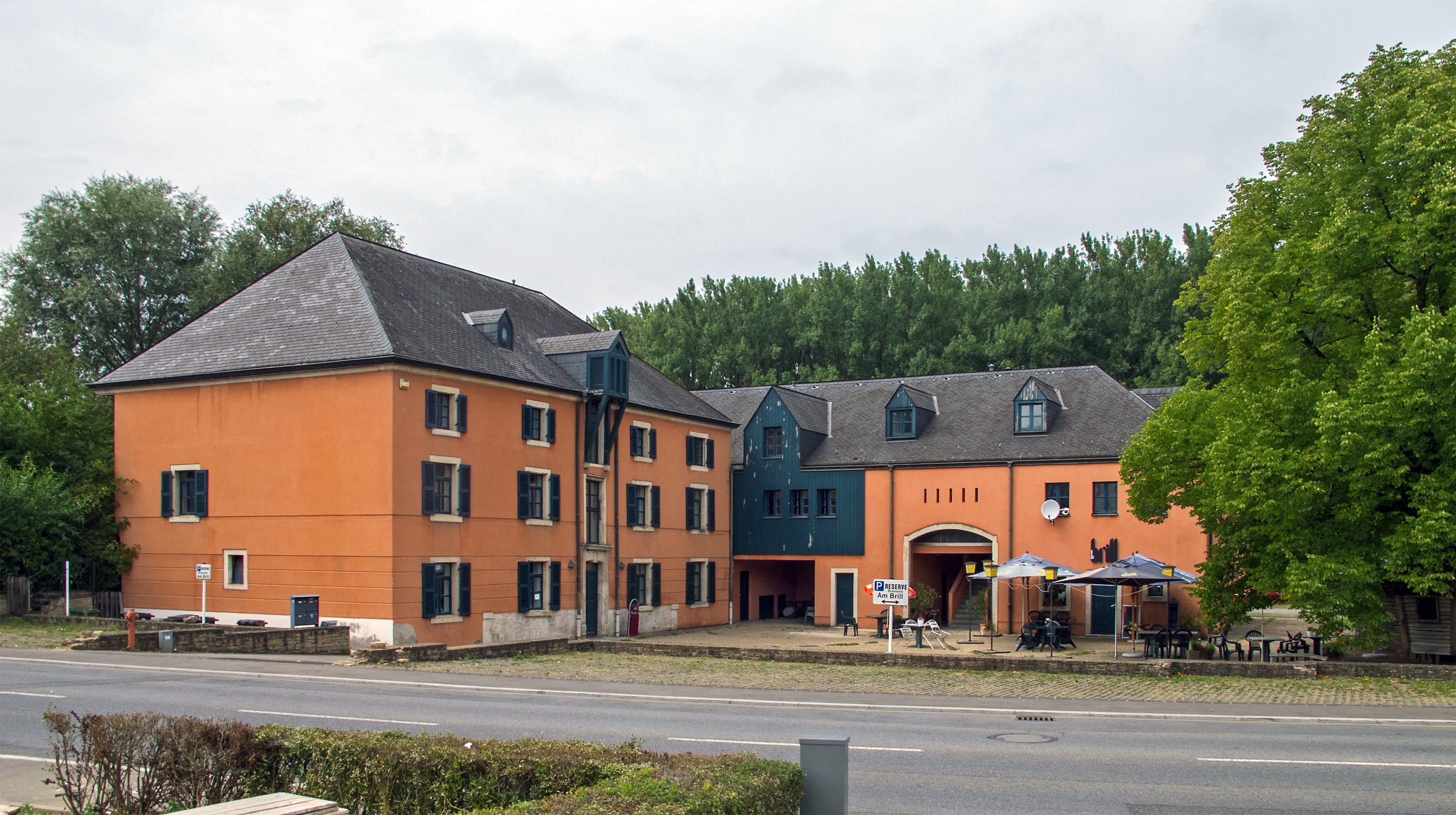 The Bestgen mill in Schifflange